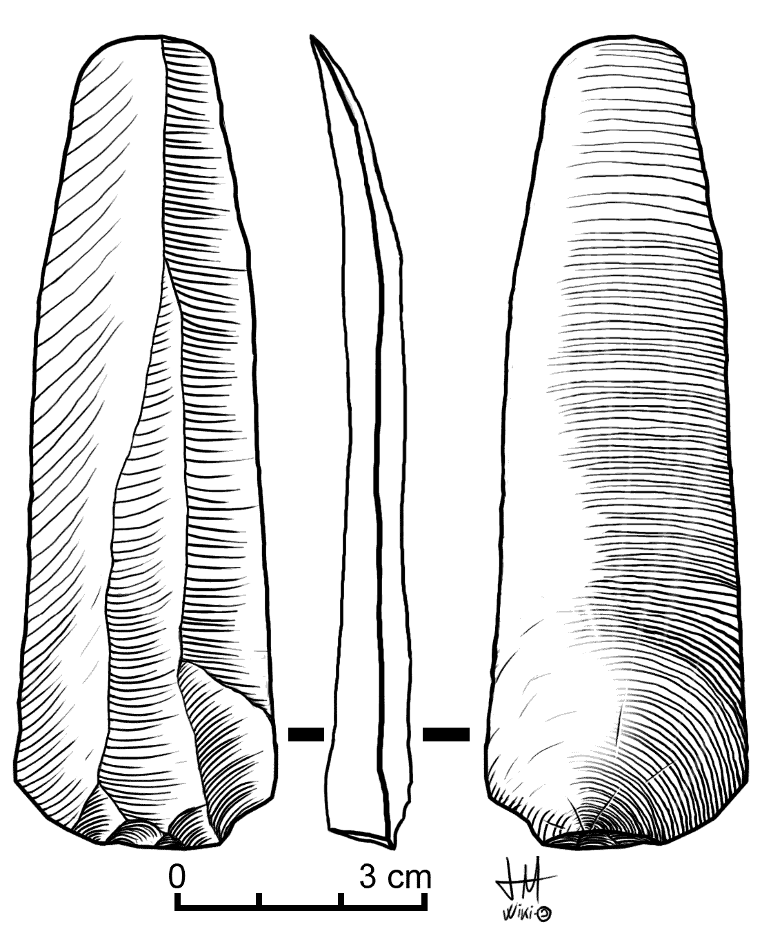 Lithic flint blade